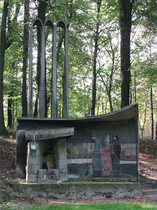 Calvary in Katowice Panewniki, Chapel of the Rosary - The first glorious mystery "Resurrection". Completed in 1963.